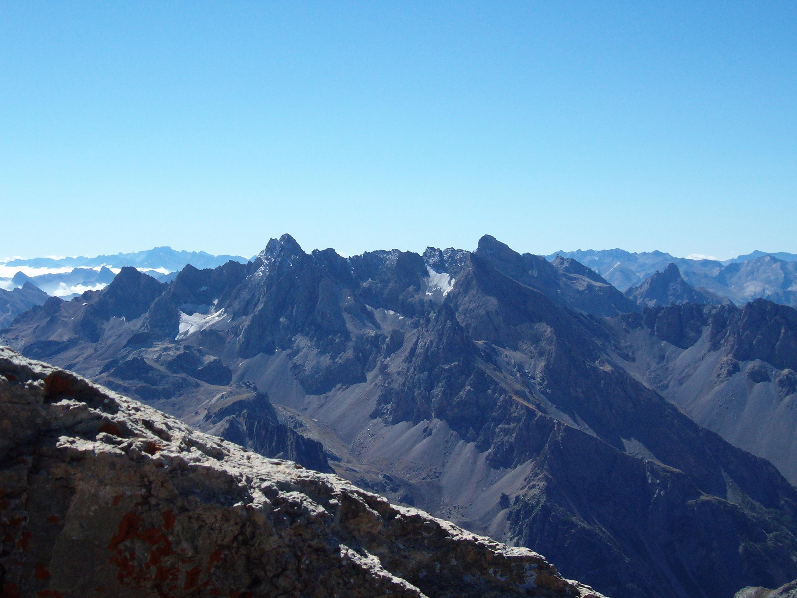 View of the Chambeyron group and the north face of the aiguille de Chambeyron from the Font Sancte N. peak